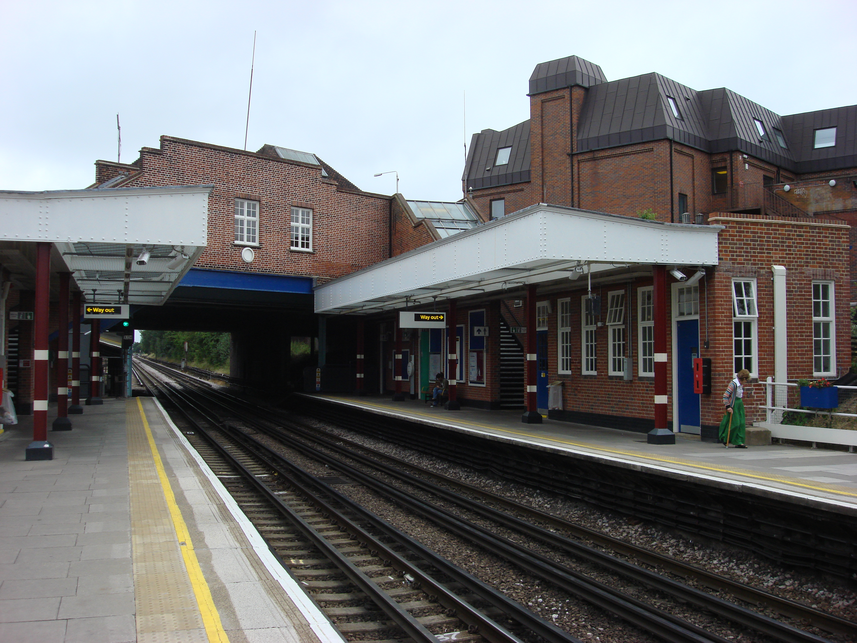 Northwood Hills tube station, northbound platform